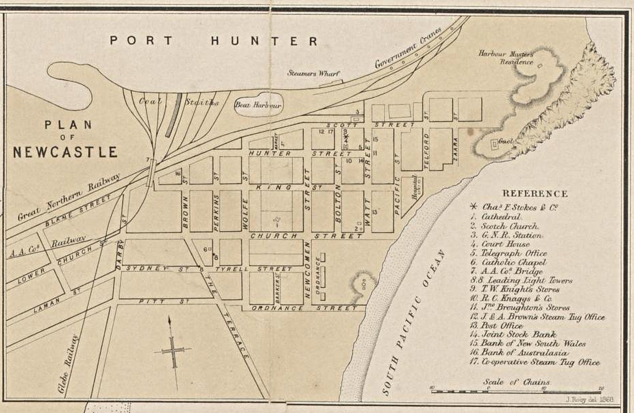 Inset: Plan of Newcastle. Part of a larger map. Chart of Newcastle Harbour and Port Waratah with depth indicated by soundings in feet at low water. Illustrations: Newcastle Harbour - Nobbys bearing W.N.W. one mile: Samuel T. Knaggs, fec.t, Tide signals.